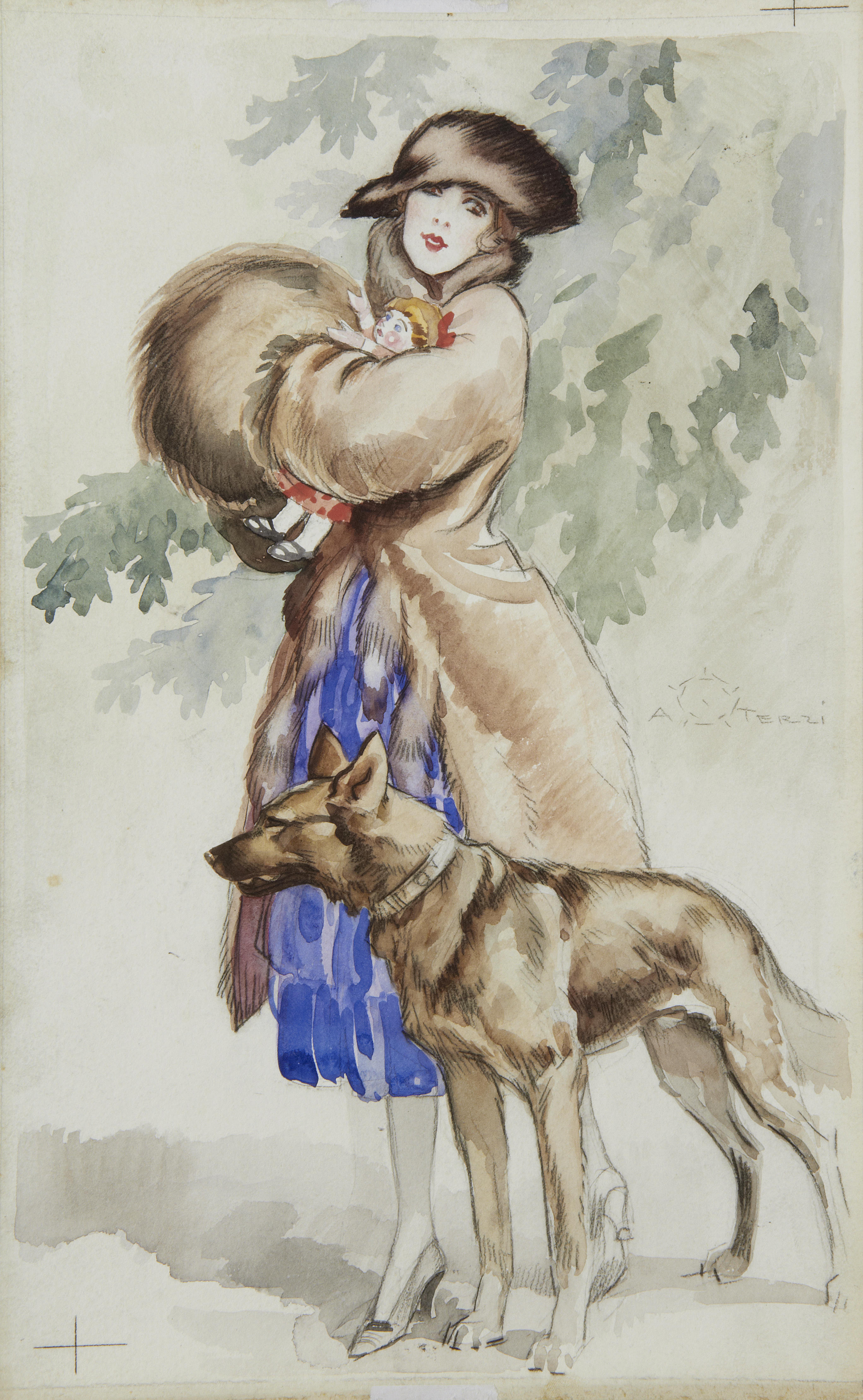 An elegant lady walking her dog. Watercolour.36.5 x 23 cm